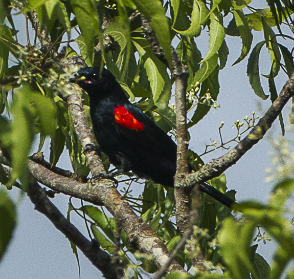 A Red-shouldered Cuckoo-shrike (Campephaga phoenicea) in the area of the Shai Hills (near of the lower Volta, Eastern Region, Ghana